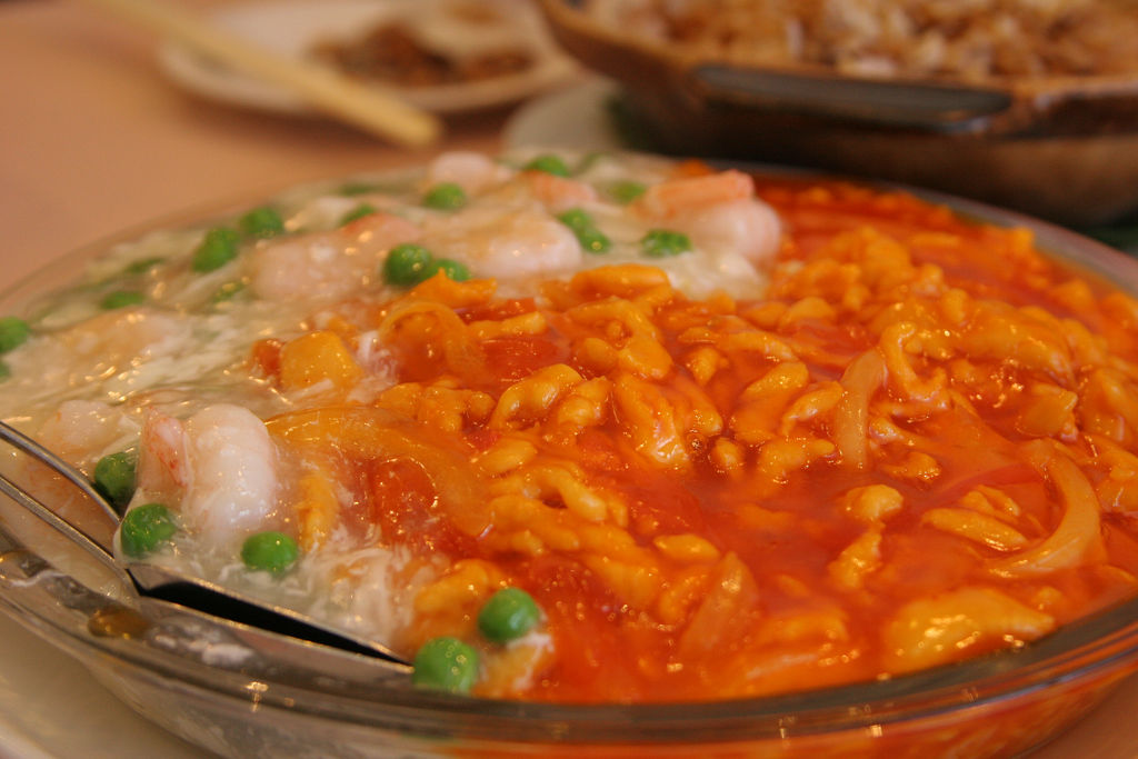 鴛鴦炒飯, a kind of Cantonese style fried rice.